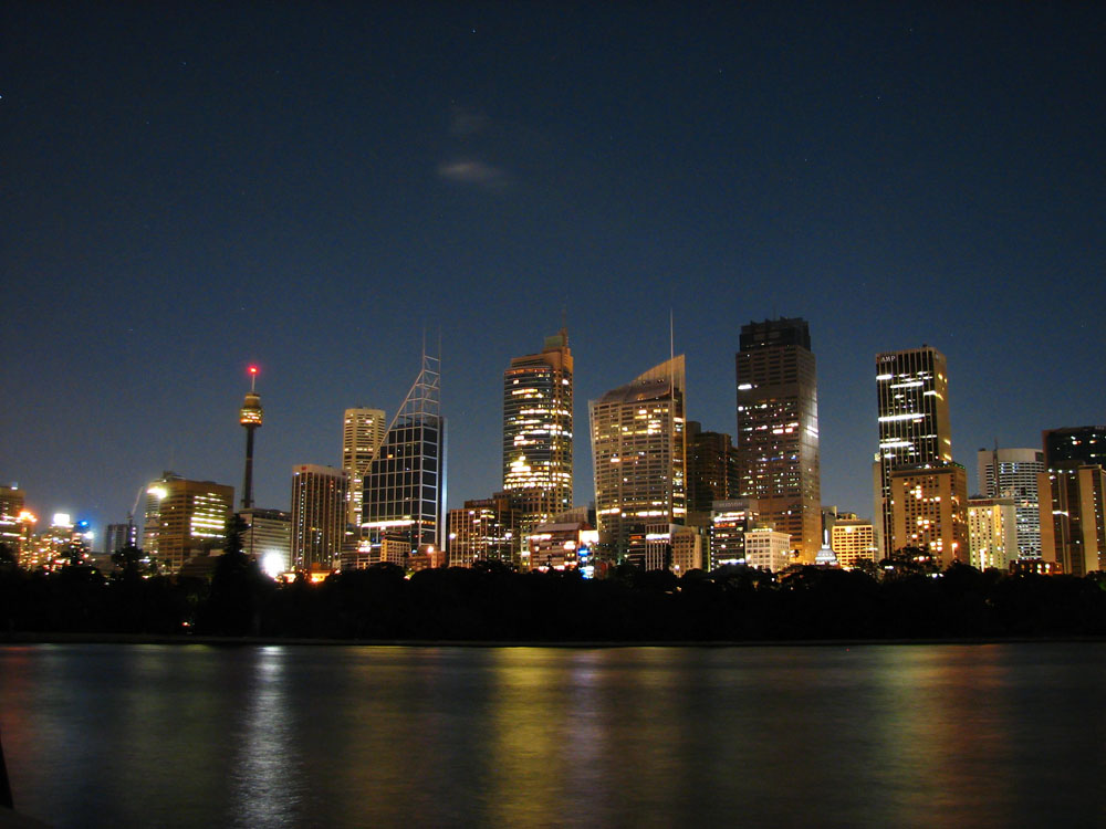 This is a photo of Sydney during Earth hour